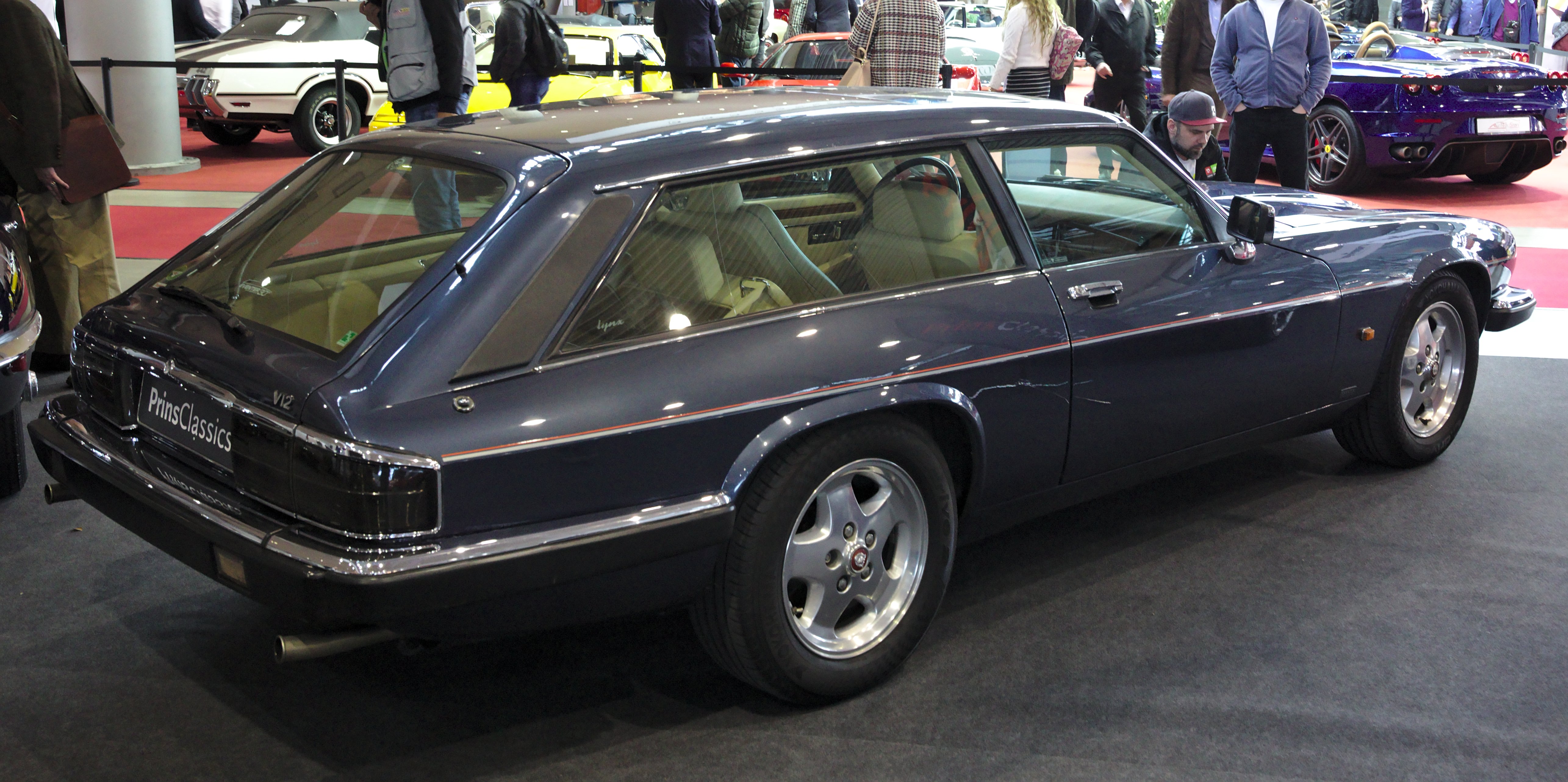 Lynx Eventer at Retro Classics 2019